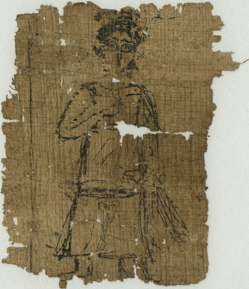 Papyrus Oxyrhynchus 2652 - Menander, Agnoia